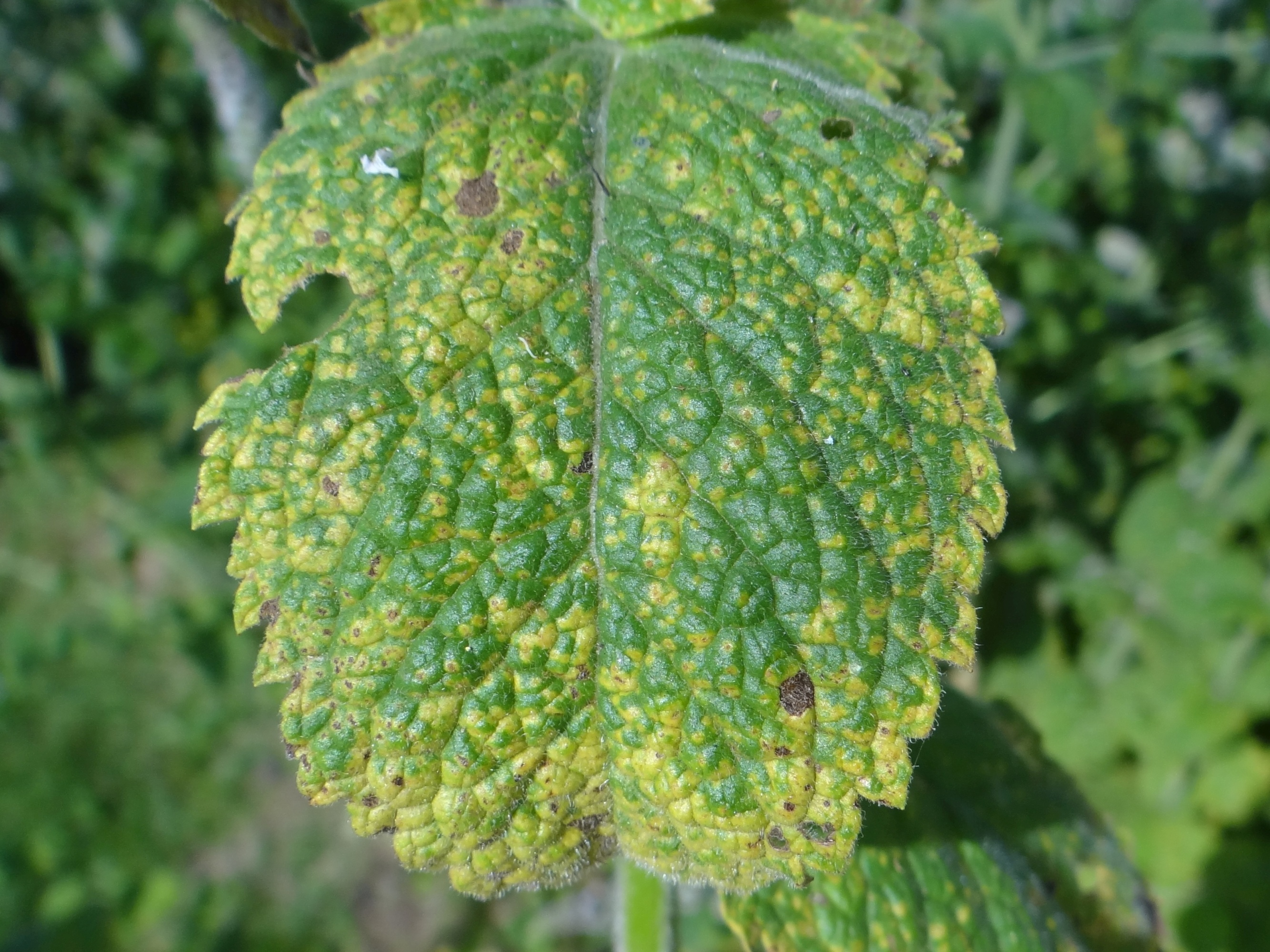 Puccinia menthae on Mentha sp.